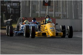 Clipsal 500, Taz Douglas enters Turn 1. In the Cat Car